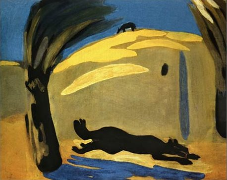 Martiros Saryan. By the Well. Hot Day